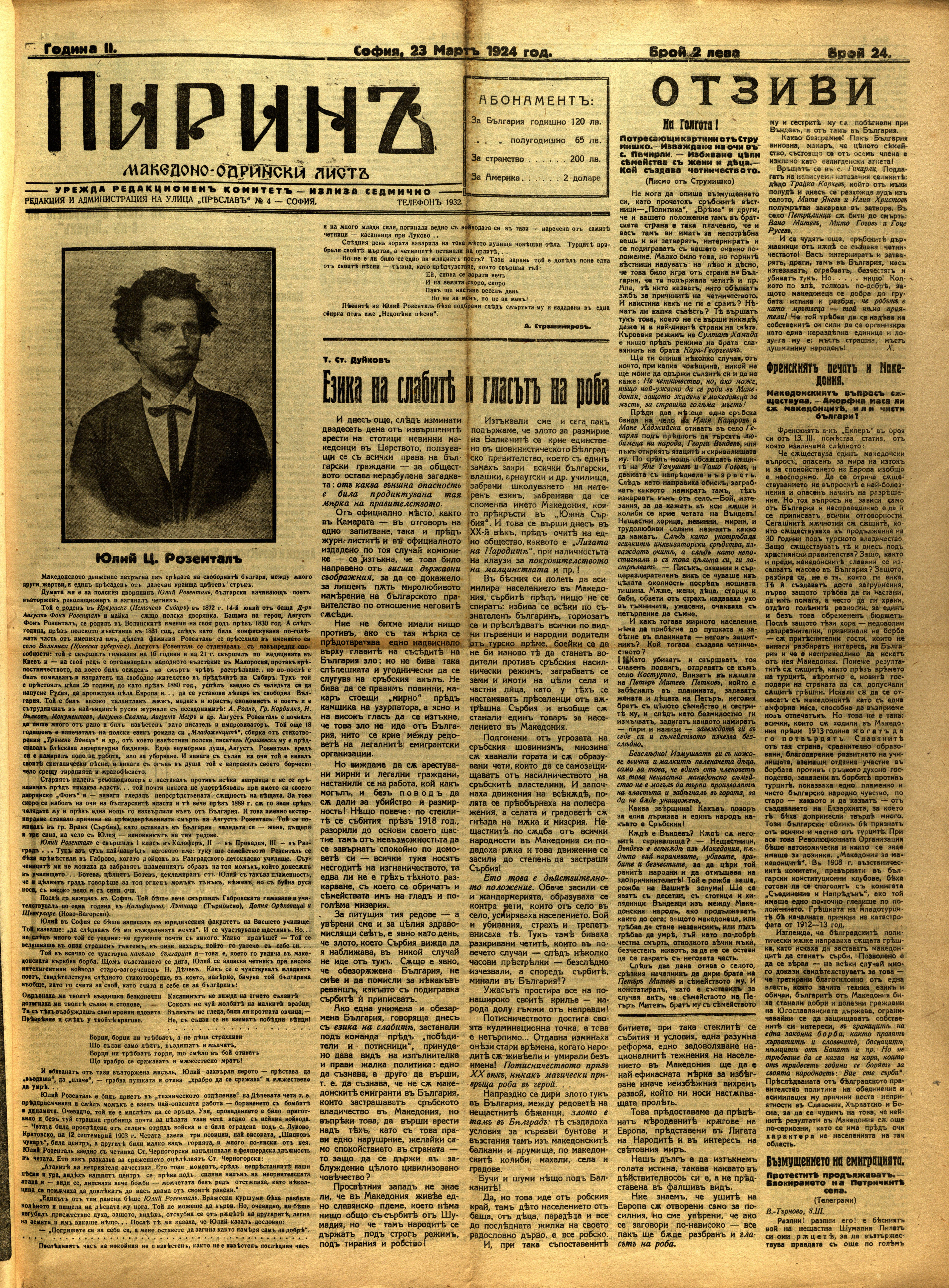 Pirin 23 March 1924